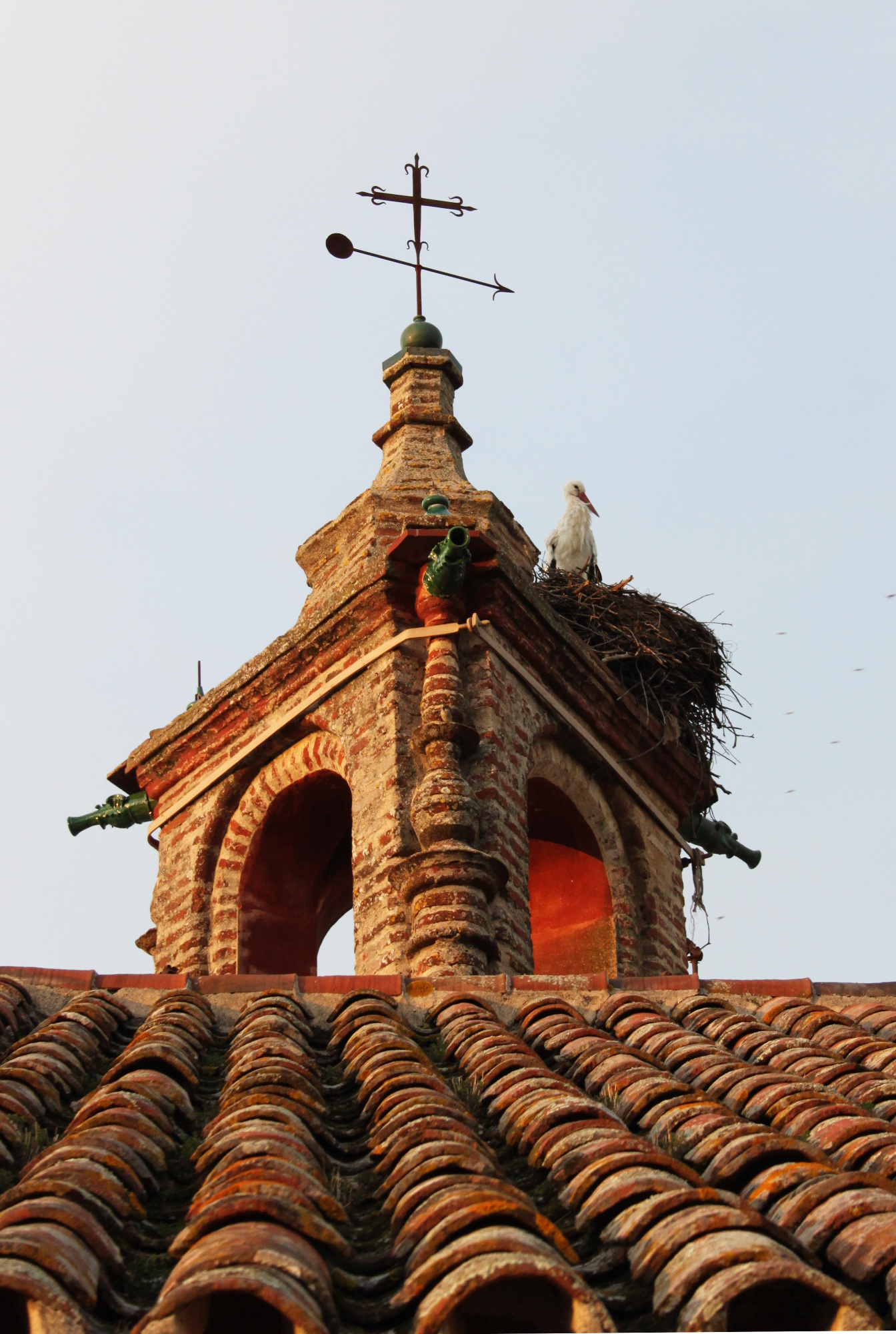 Bell tower of former church of San Benito in Cazalla. In the right part of the picture can be distinguished a stork in a nest.